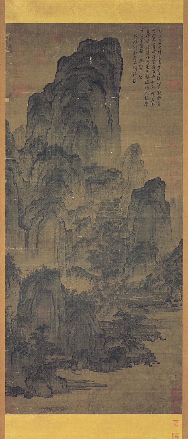 Yan Wengui, Buildings Among Mountains and Streams. NPM, Taipei